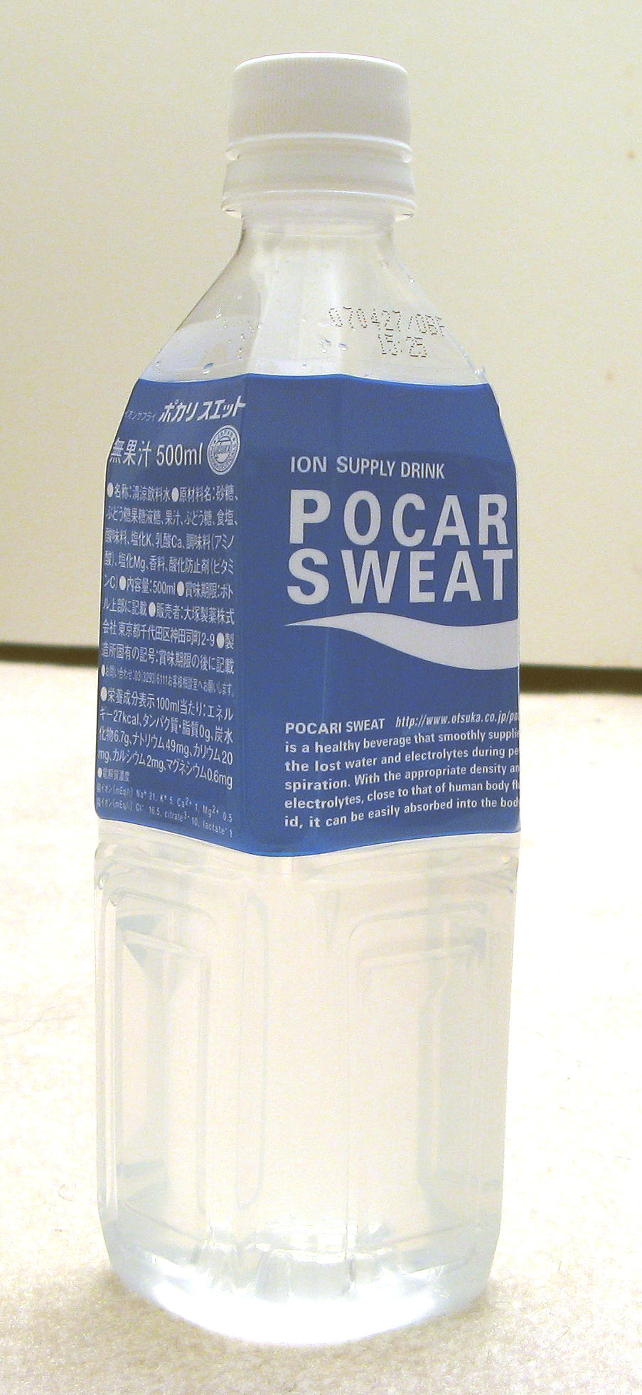 A bottle of 500 ml Japanese imported Pocari Sweat from Nijiya Market. Owned, photographed and uploaded by user:Geographer